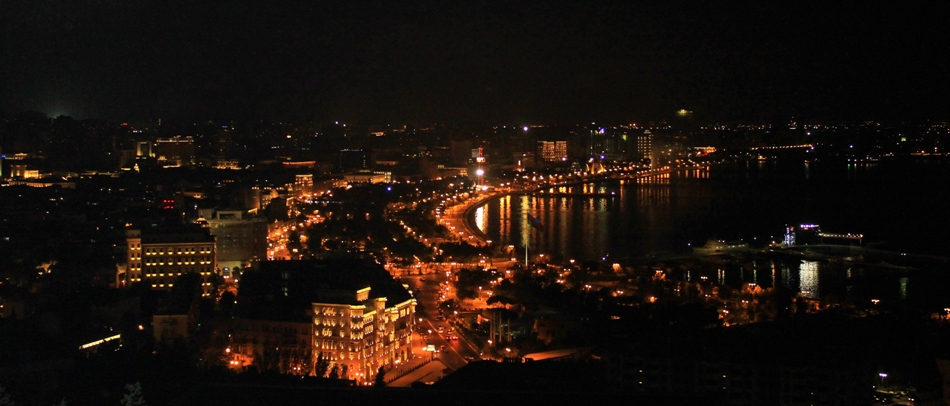 Baku night.